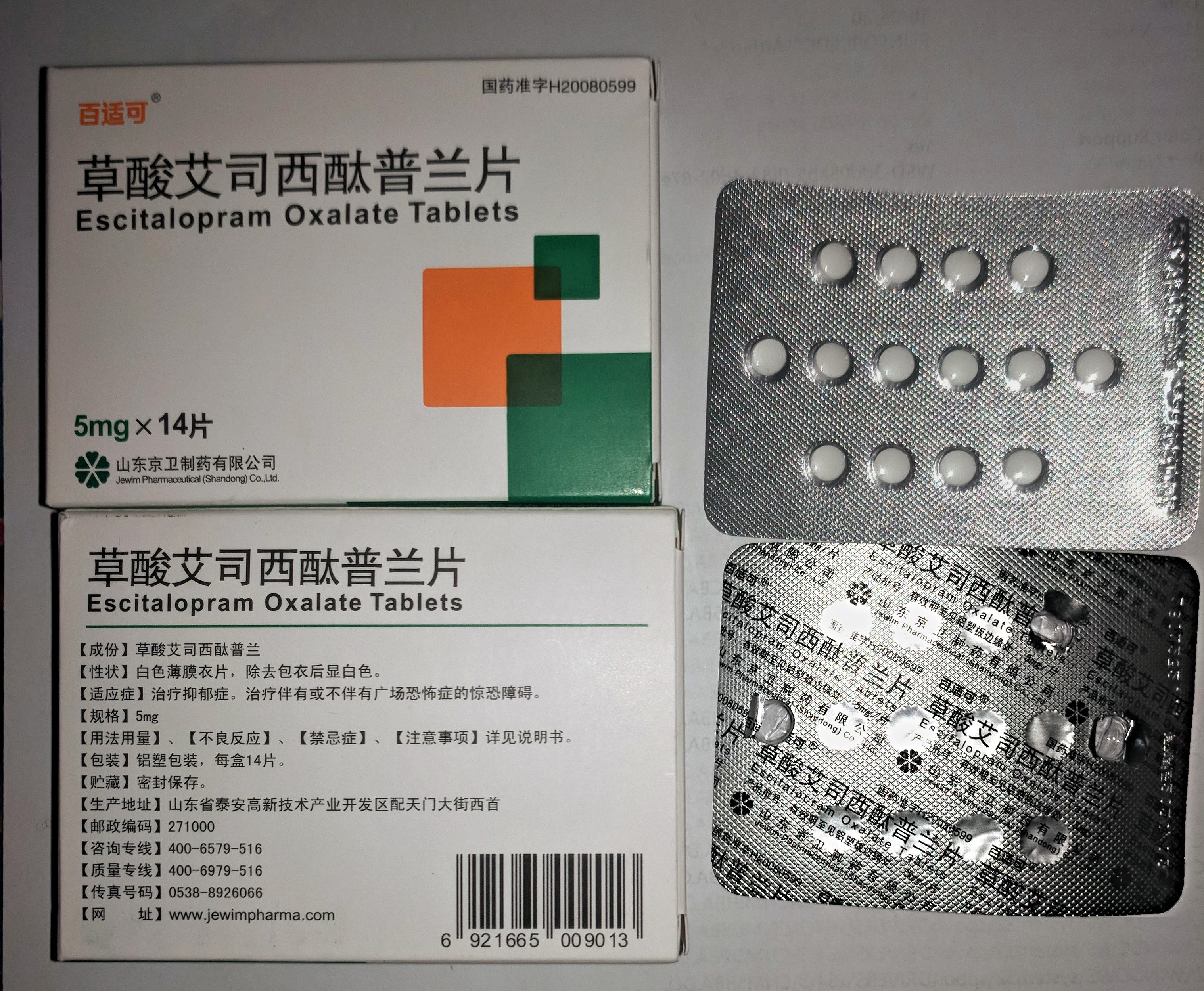 generic escitalopram oxalate sold in china. 14 5mg pills in blister packs, manufactured by jewim shandong. ~CN¥ 75 per 14 pills.